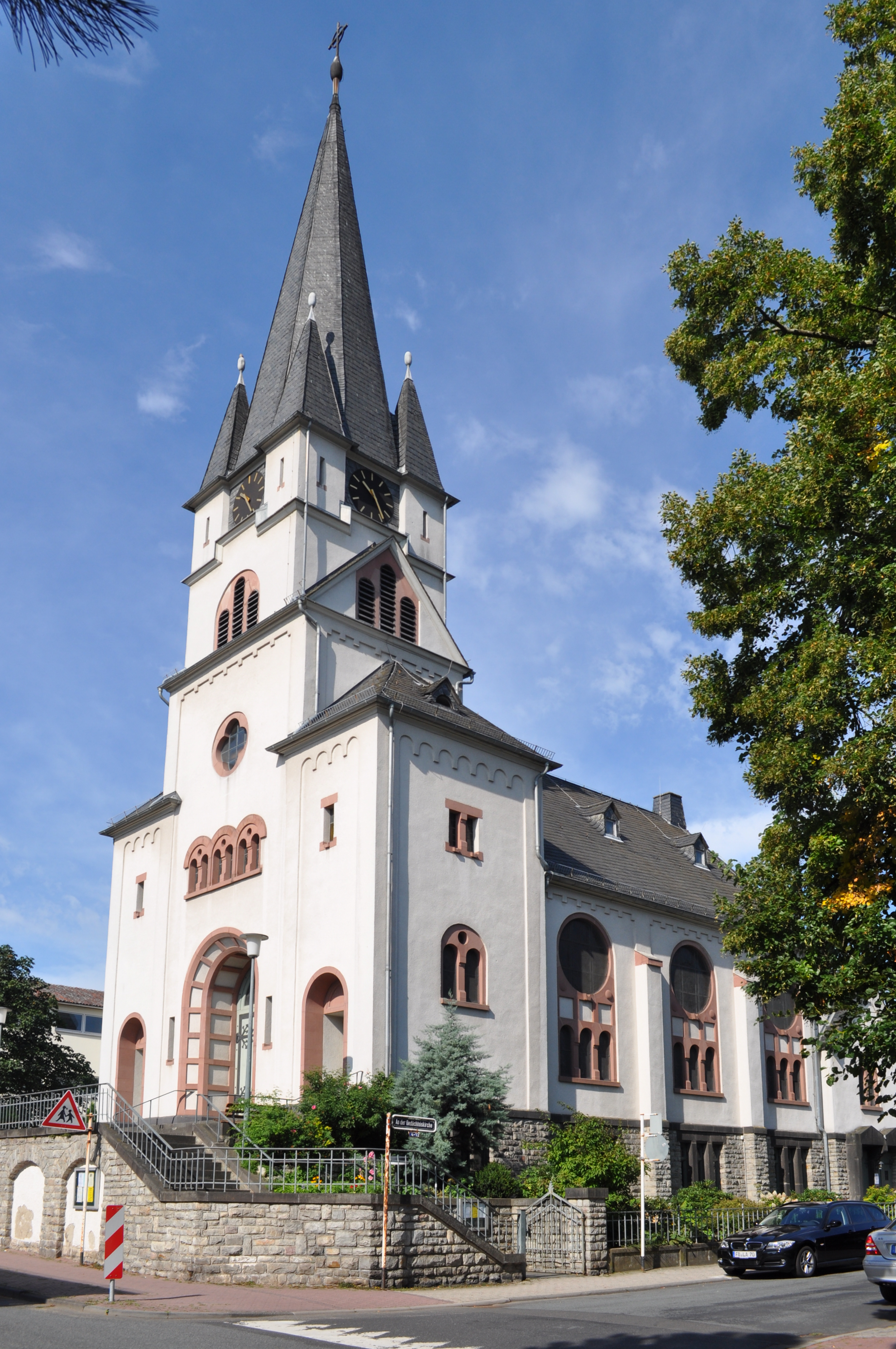 Protestant church in Kirdorf